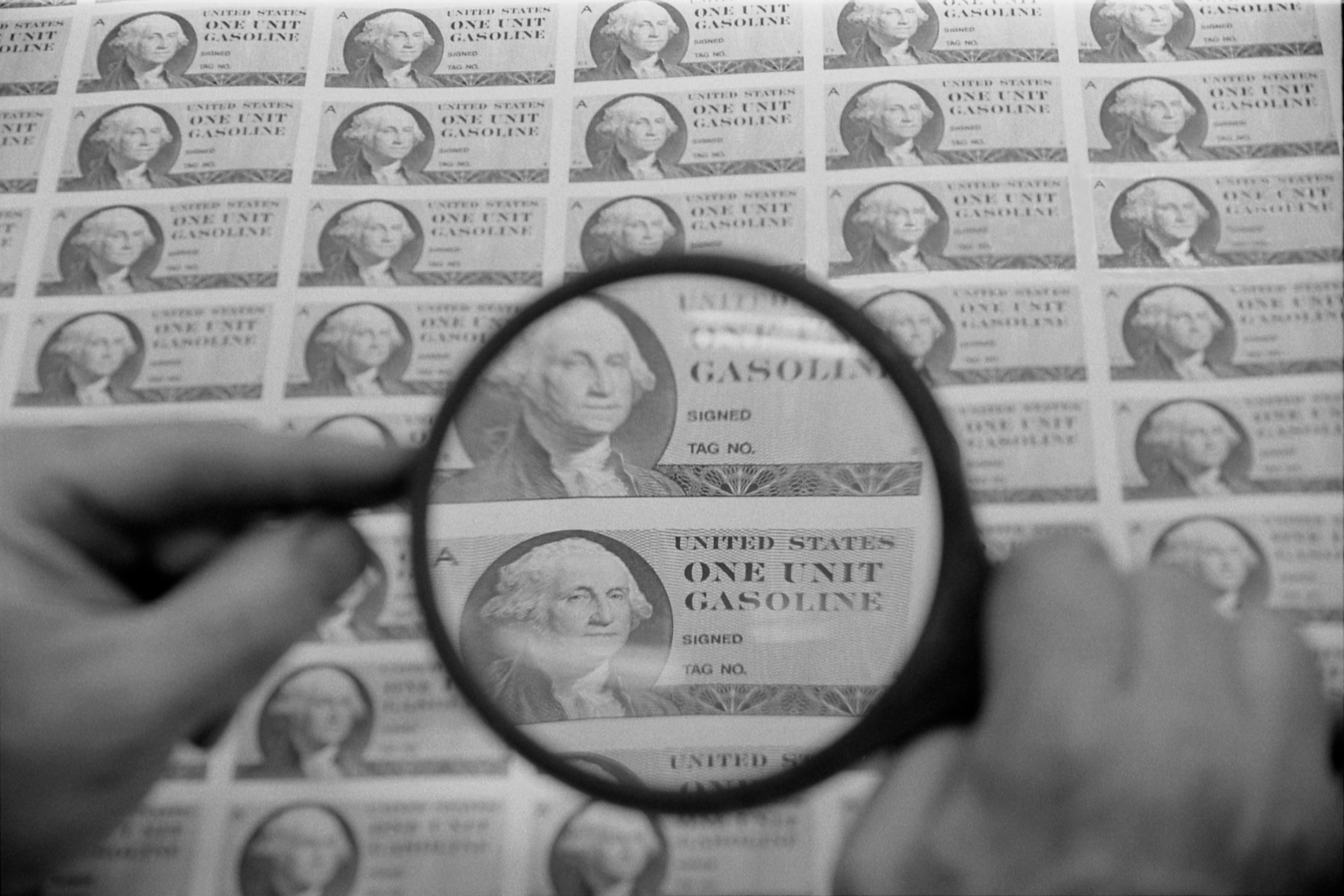 Gas ration stamps being printed as a result of the 1973 oil crisis, U.S. Bureau of Engraving & Printing